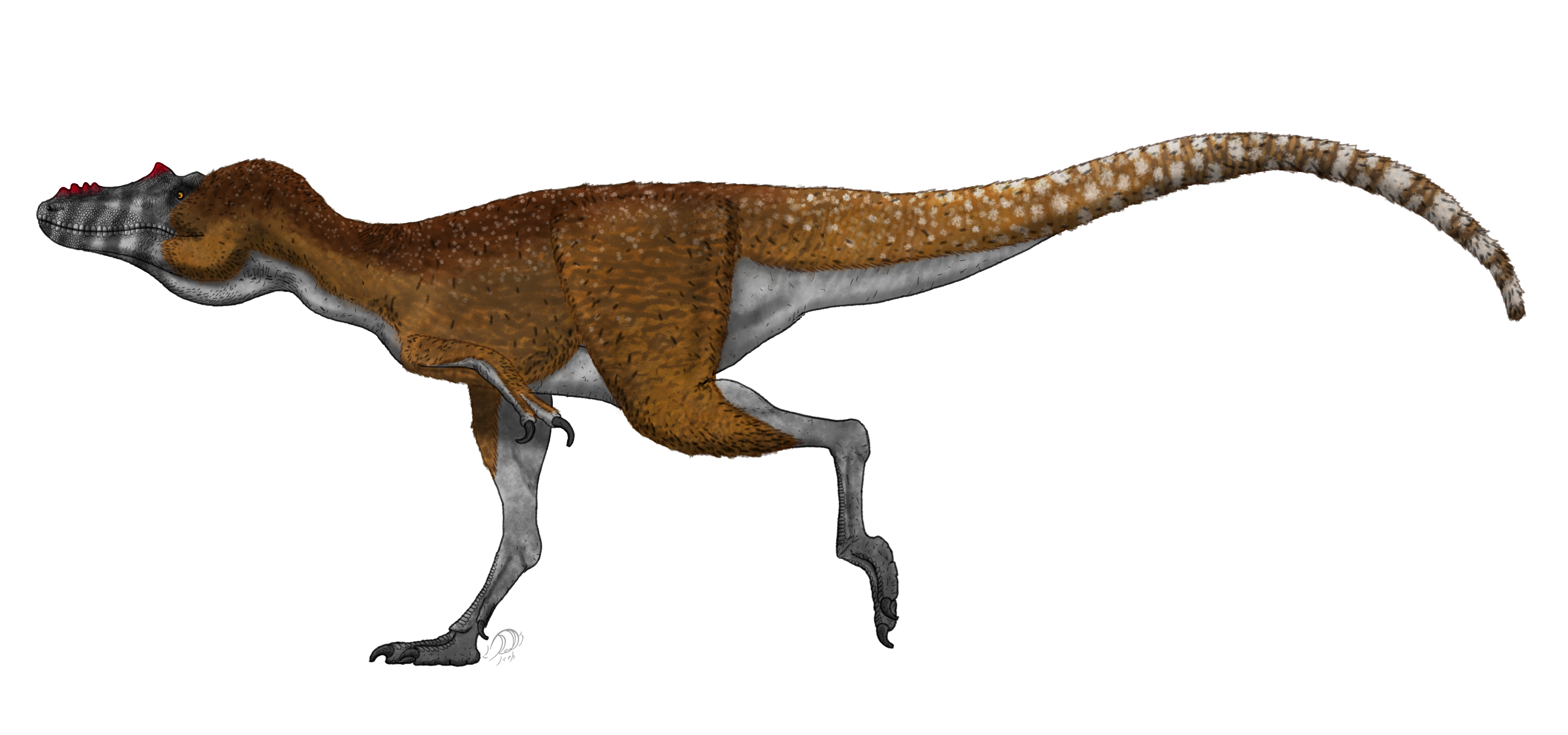 Life reconstruction of the tyrannosaurid species Qianzhousaurus sinensis based on a skeletal by Ashley Patch[1].